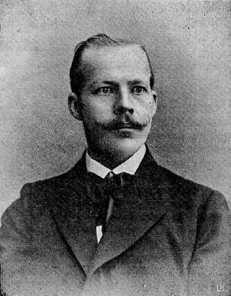 Kaarlo Luoto (1875-1947), commander of the Red Guards 1905-1906.